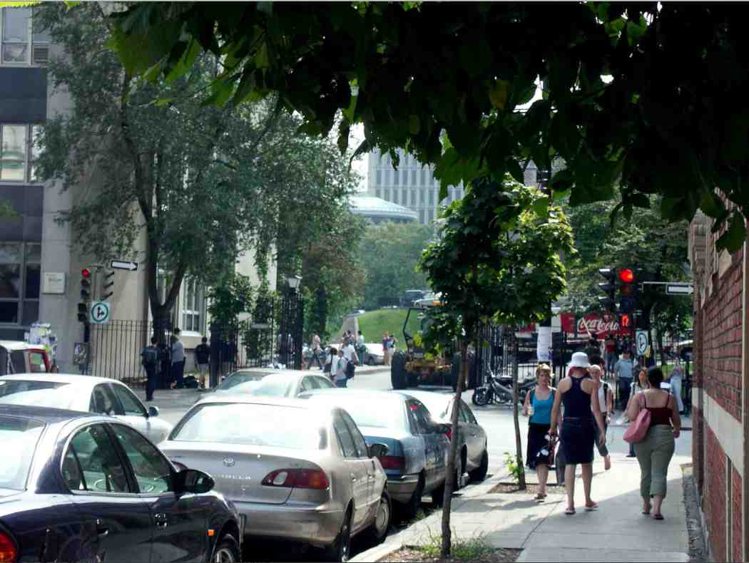 Milton Gates of McGill University, Montreal. Photo by: User:Gene.arboit.